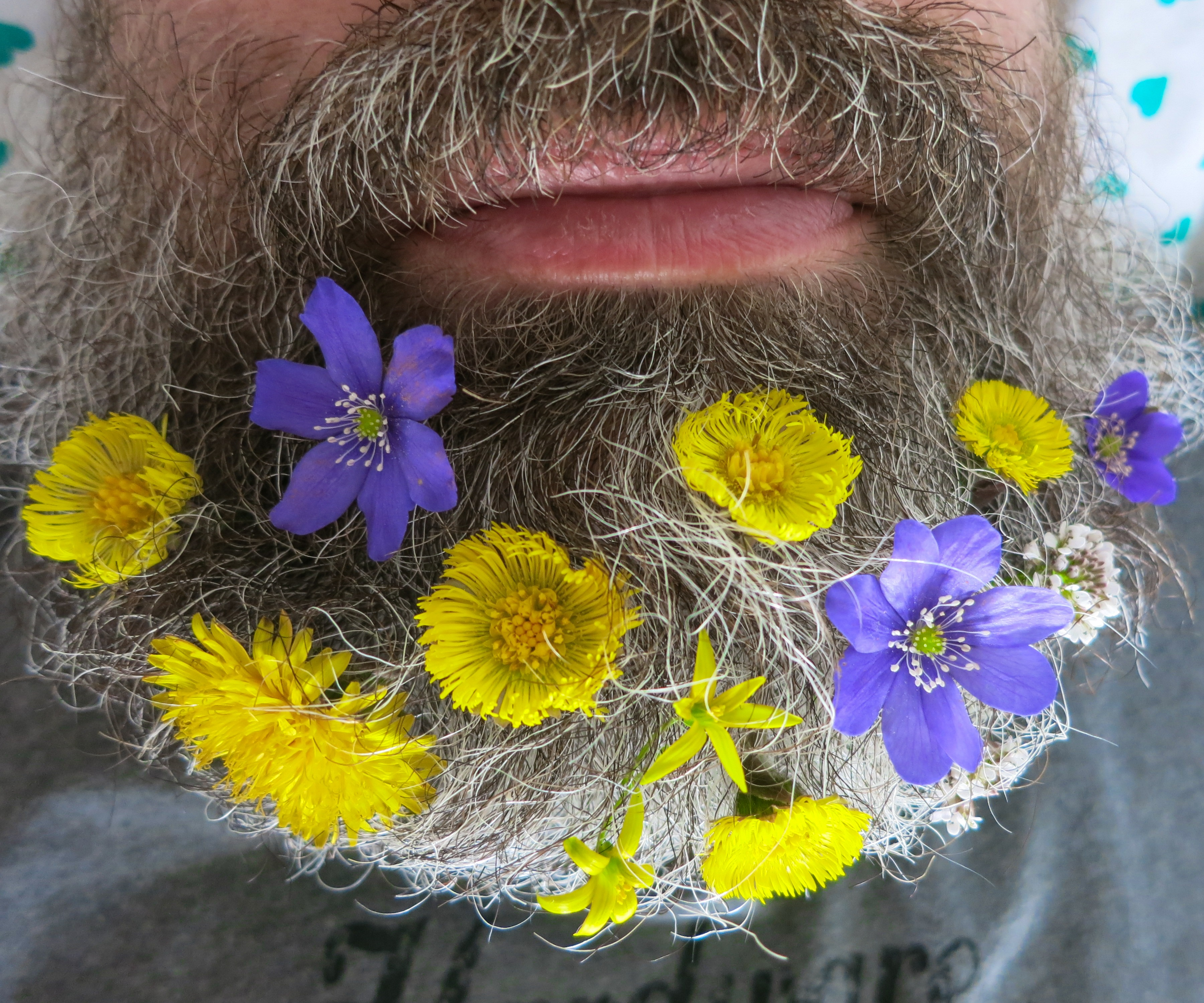 Flowers of the middle of May from Southern Finland forest edge: Hepatica nobilis (blue), Tussilago farfara (yellow, 5 pcs), Gagea lutea (yellow, 2 pcs), and Taraxacum officinale.